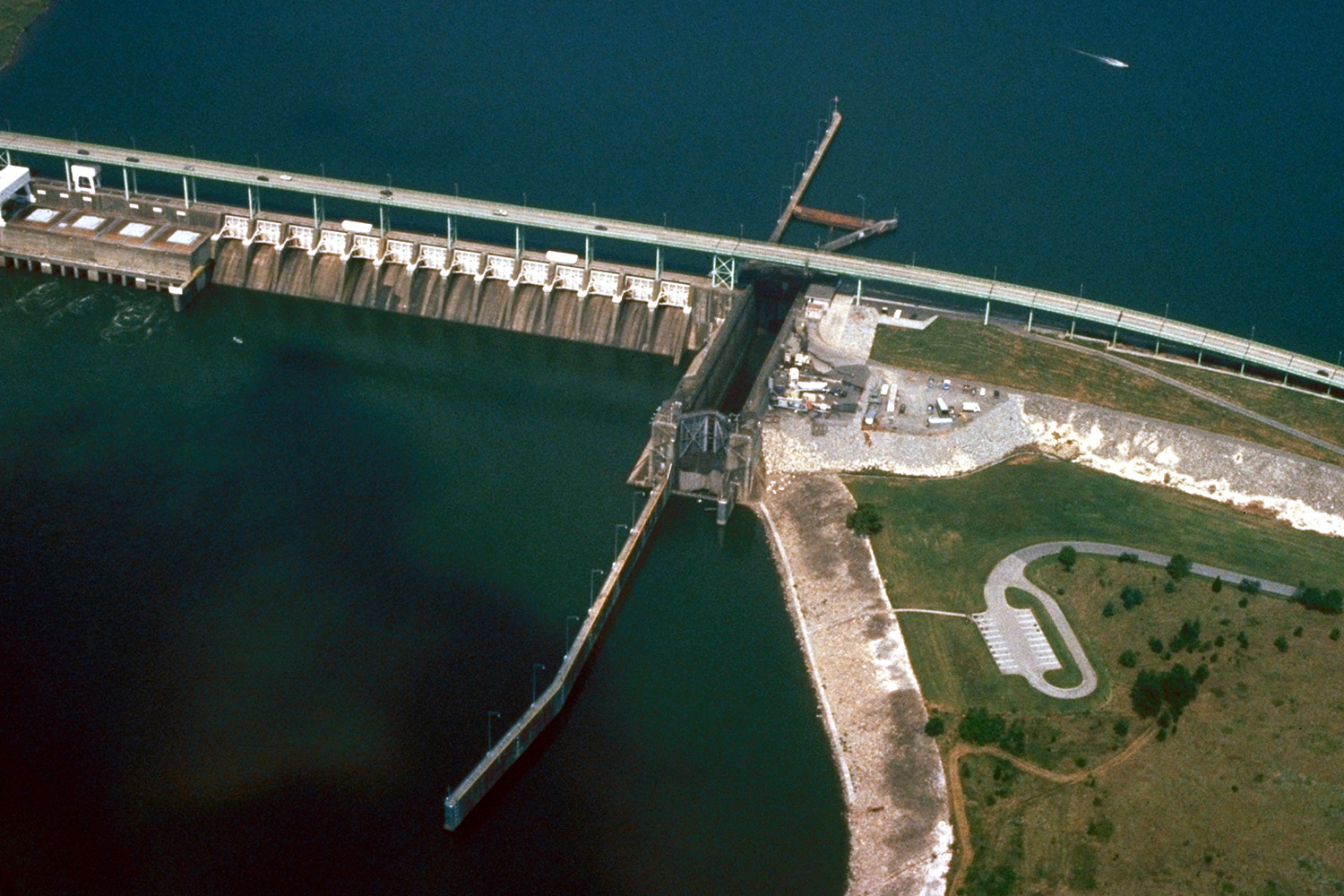 Fort Loudoun Lock and Dam on the Tennessee River at Lenoir City, Tennessee, USA. The dam impounds Fort Loudoun Lake. The lock is operated and maintained by the U.S. Army Corps of Engineers for navigation on the Tennessee River. View is upriver to the northwest.